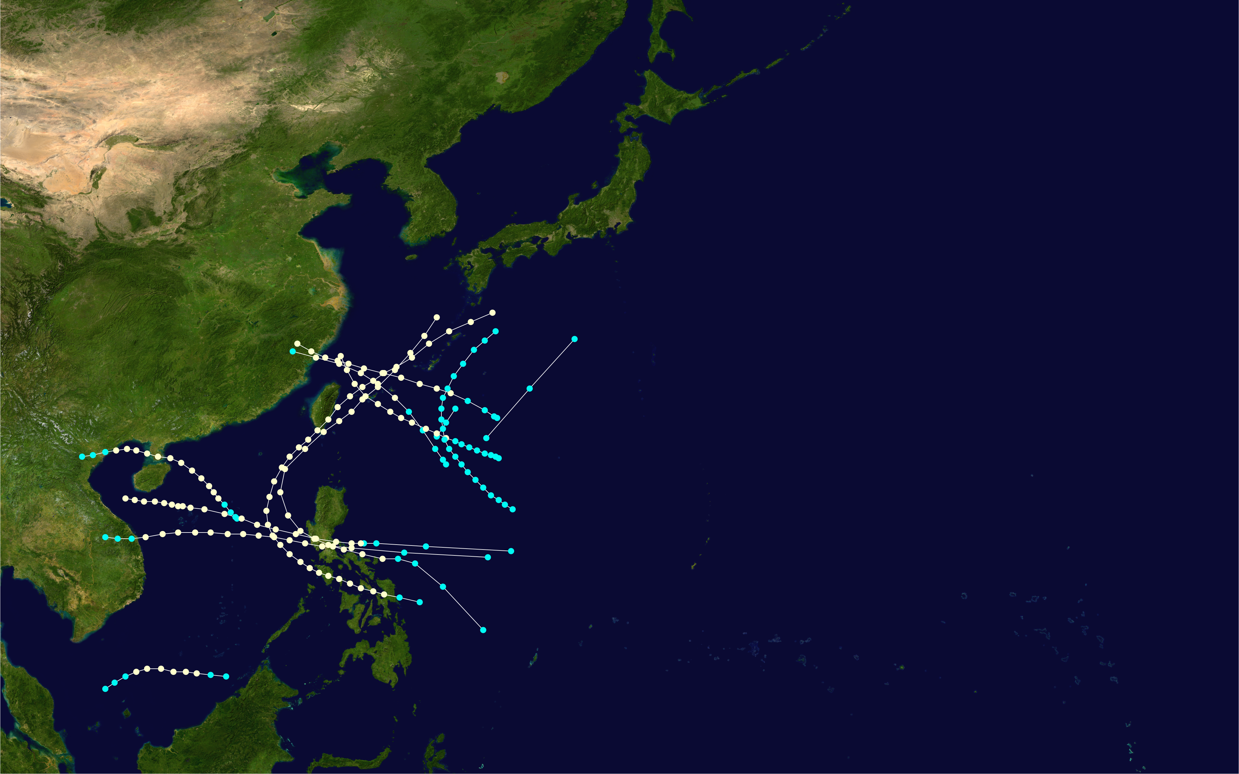 This map shows the tracks of all tropical cyclones in the 1901 Pacific typhoon season. The points show the location of each storm at 6-hour intervals. The colour represents the storm's maximum sustained wind speeds as classified in the Saffir-Simpson Hurricane Scale (see below), and the shape of the data points represent the type of the storm. Saffir–Simpson scale Tropical depression≤38 mph≤62 km/h Category 3111–129 mph178–208 km/h Tropical storm39–73 mph63–118 km/h Category 4130–156 mph209–251 km/h Category 174–95 mph119–153 km/h Category 5≥157 mph≥252 km/h Category 296–110 mph154–177 km/h Unknown Storm type Tropical cyclone Subtropical cyclone Extratropical cyclone / Remnant low / Tropical disturbance